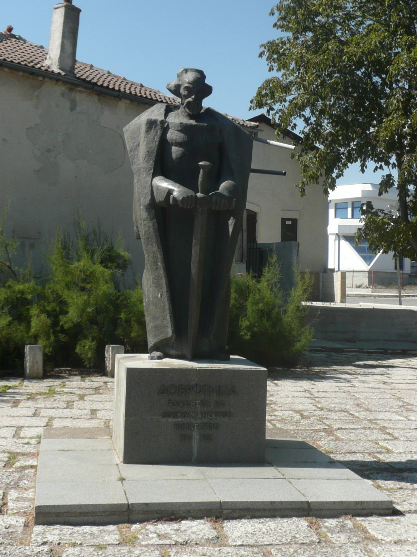 Despot Dobrotitsa memorial in Kavarna, Bulgaria